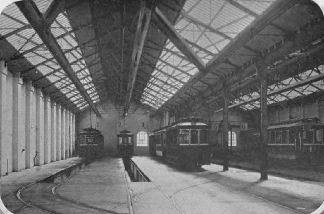 Hong Kong Electric Traction Company (detail)